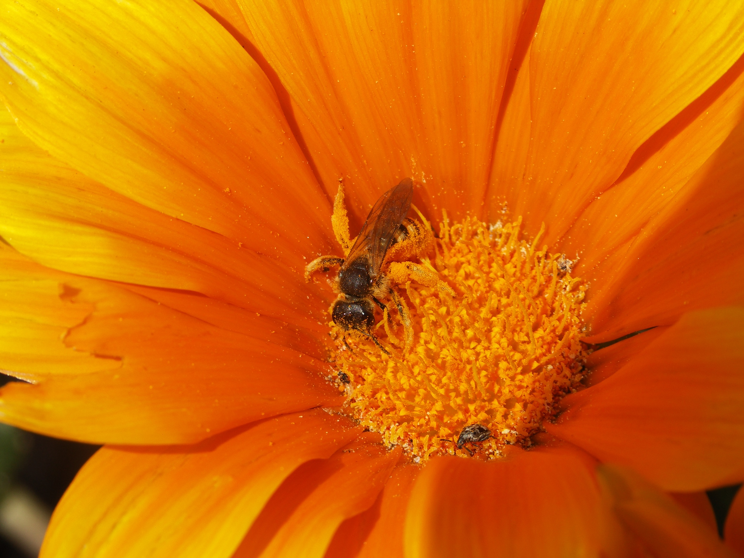 Female Halictus sp. feeding on flower